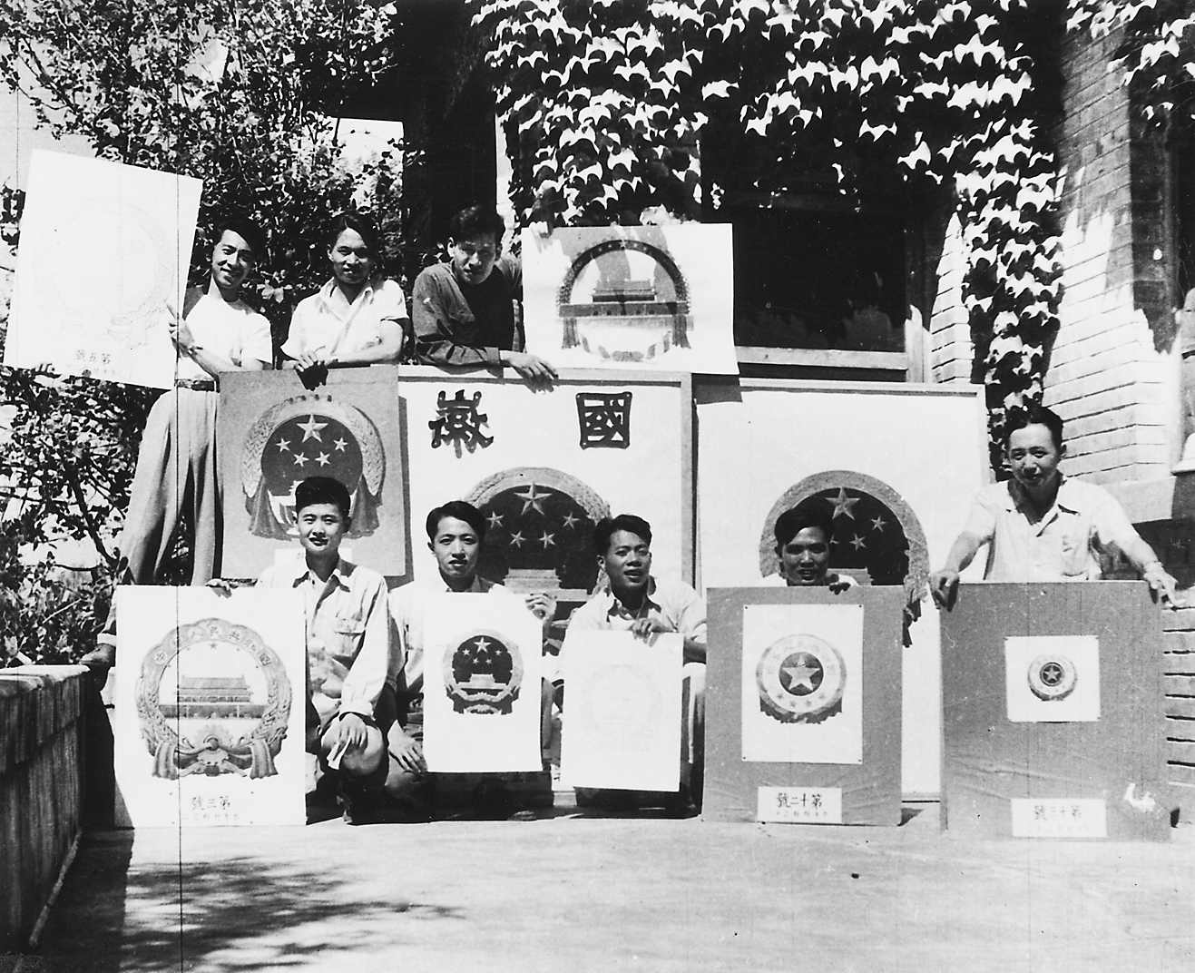 The Teachers of Tsinghua University Designed the National Emblem of China in 1949.